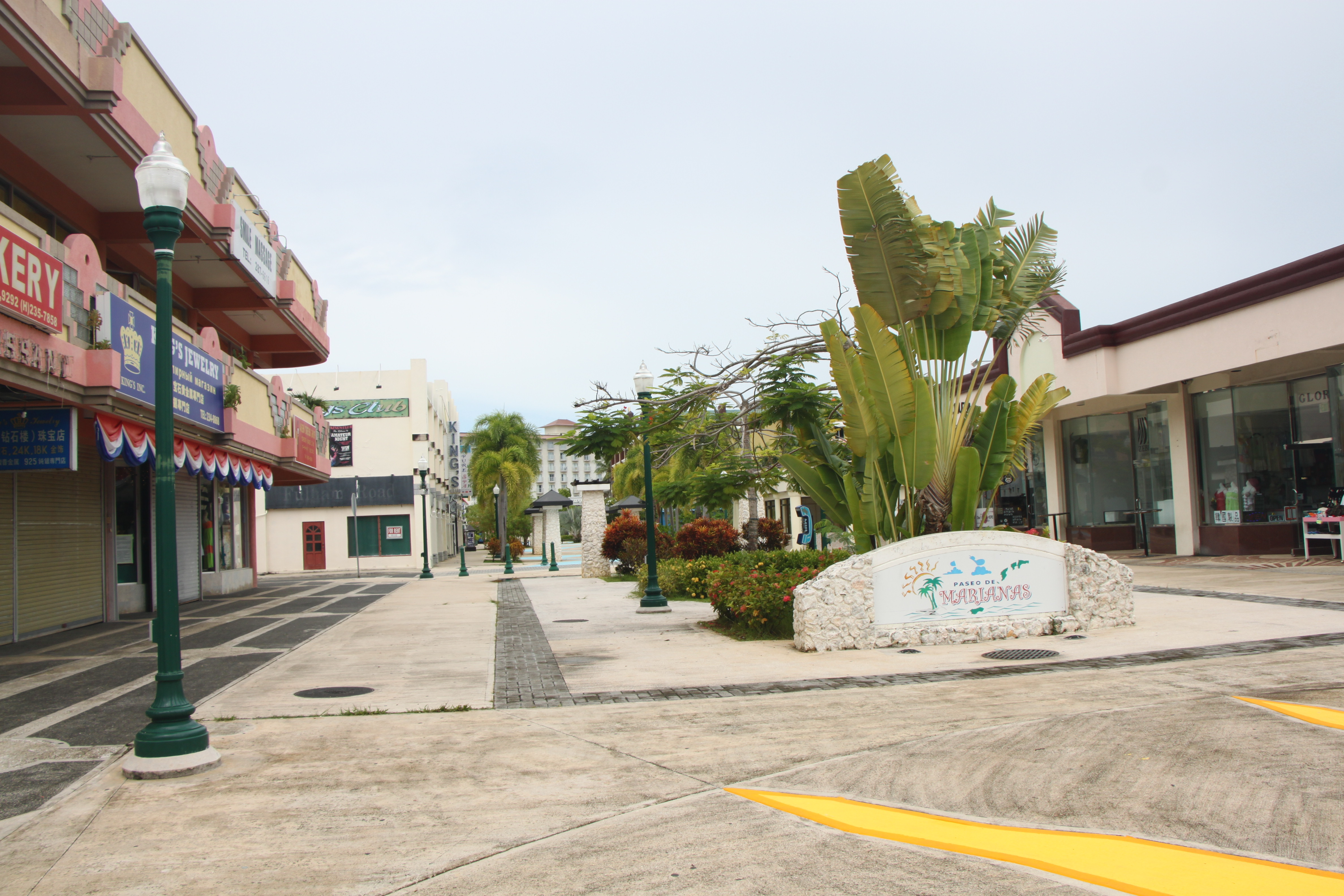 Paseo De Mariana